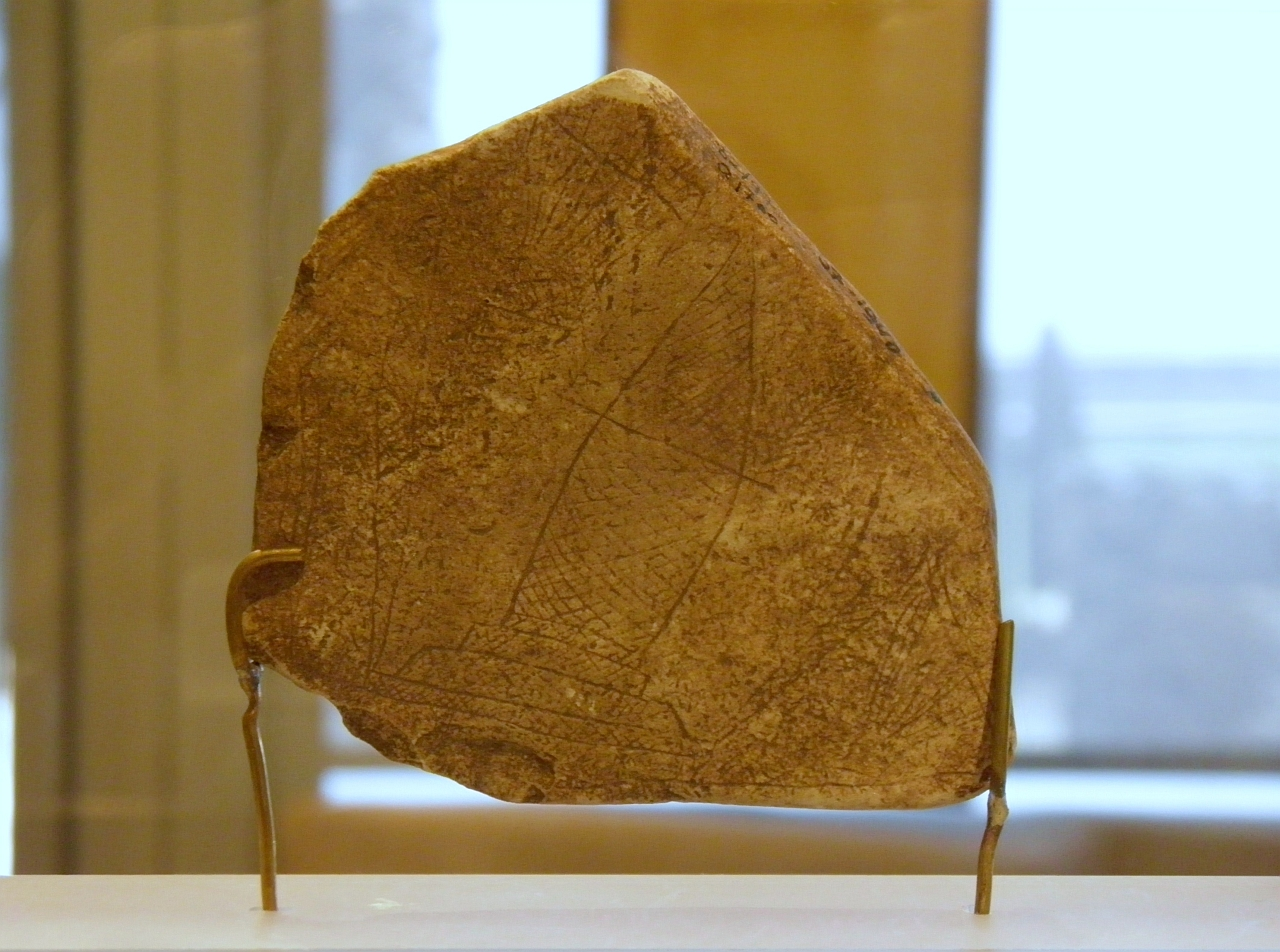 The Nefesh stone unearthed in Yodfat (Jotapata) excavations, on display at the Hecht Museum in Haifa.